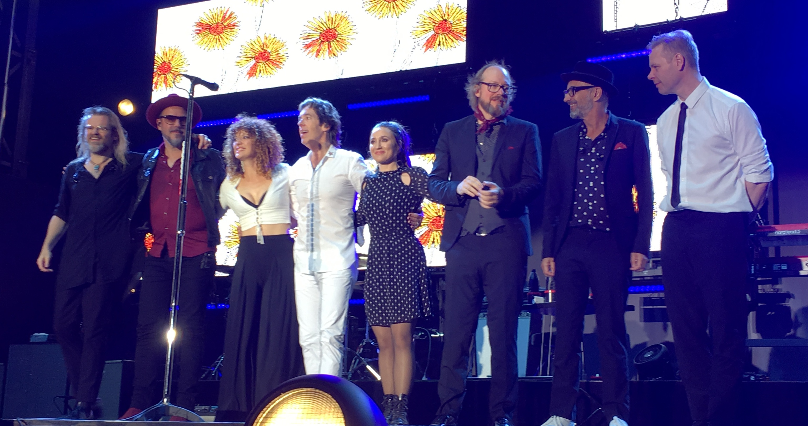 Per Gessle and the band during the concert in Grebbestad Sweden, on 21.07.2017 in frames of "En vacker kväll" summer tour 2017.